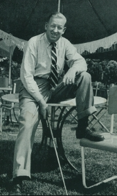 American professional golfer Willie Klein (1901-1957), as he appeared c. 1950